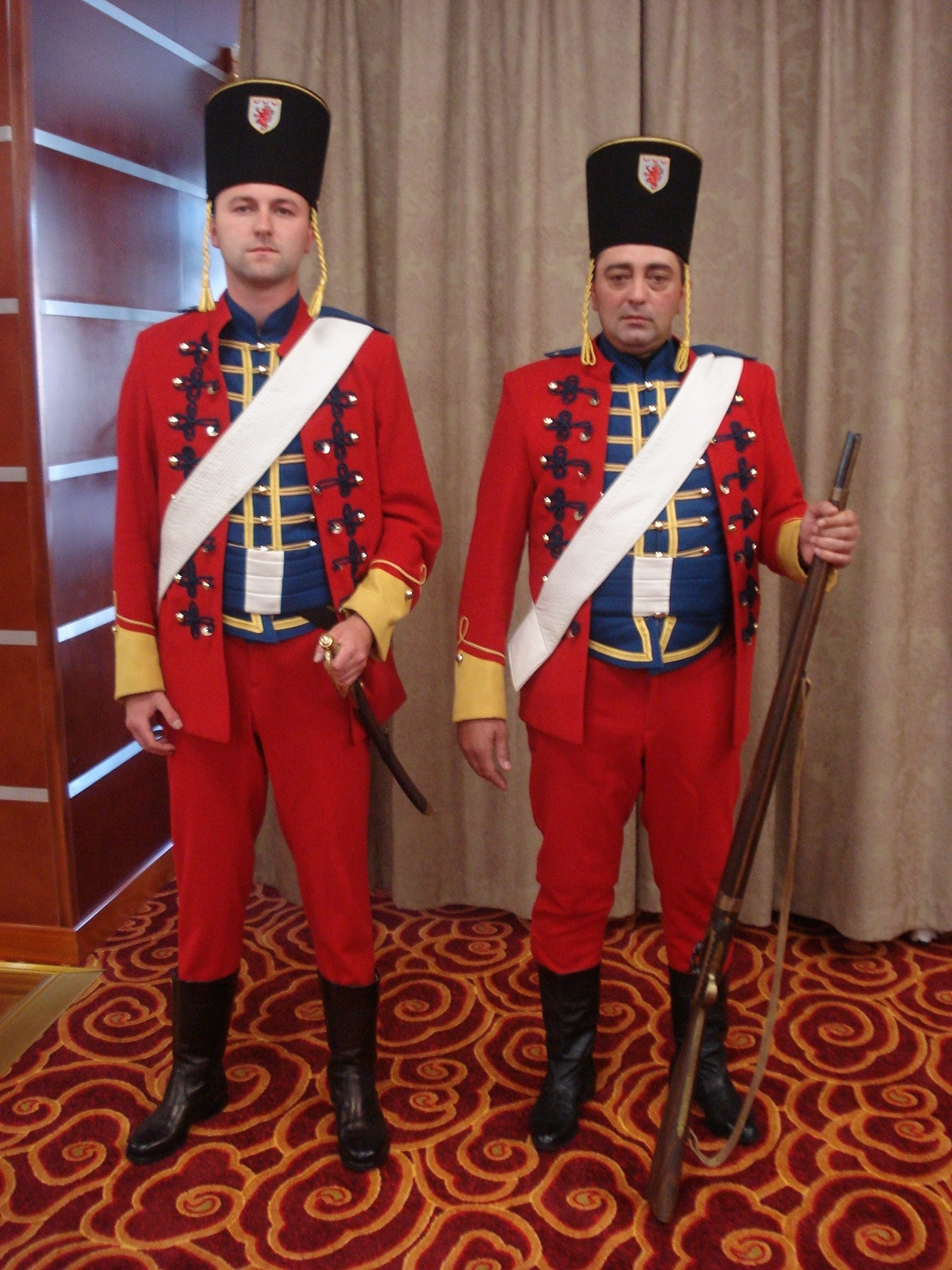 18th century Border guards of Otočac regiment (Croatia)